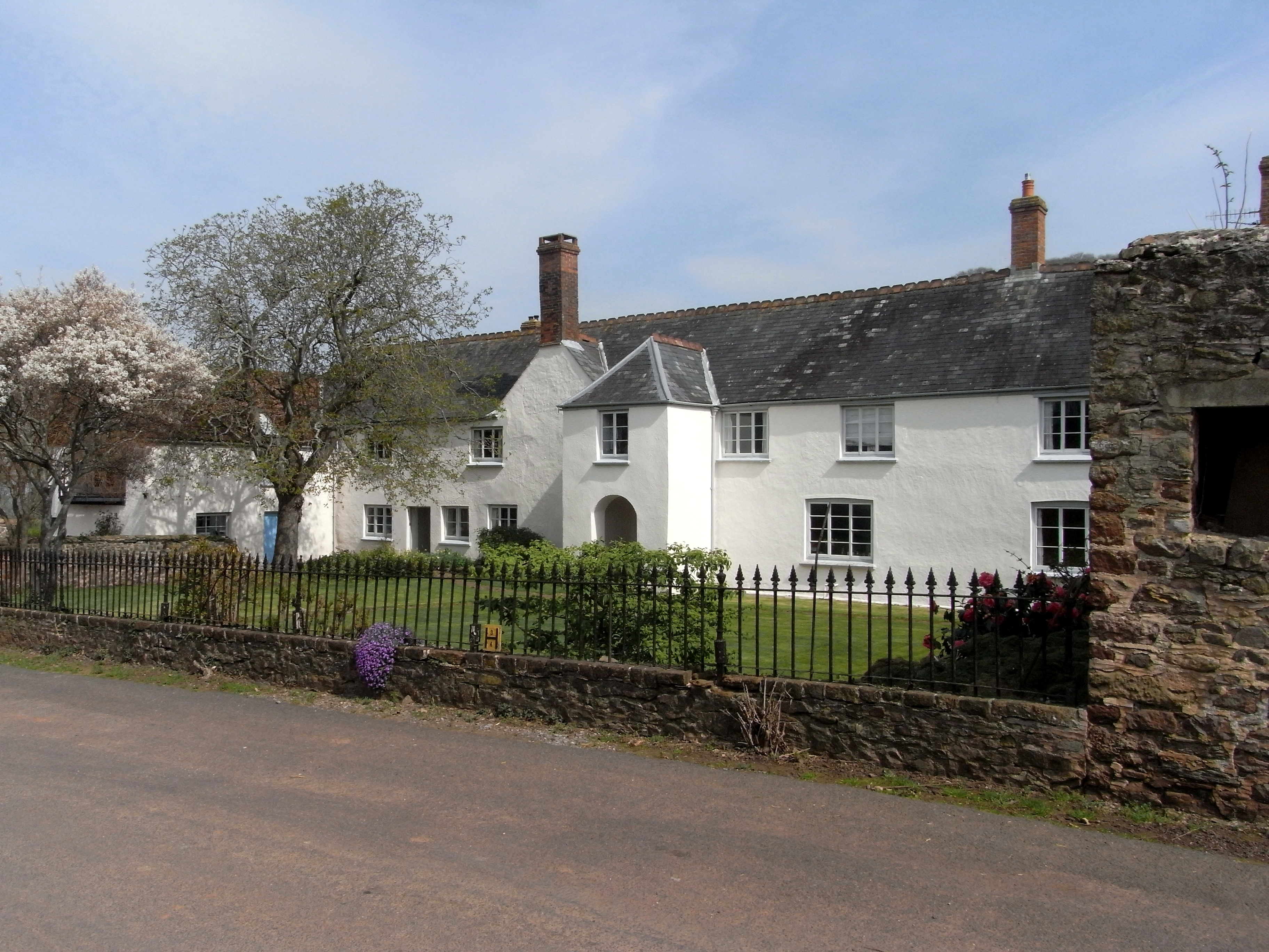 Court Place, manor house of Withycombe Hadley, Withycombe, Somerset.